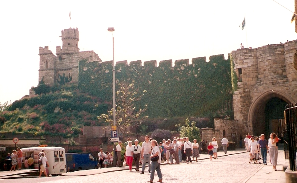 Entrance to Lincoln Castle, showing observatory tower (to left)